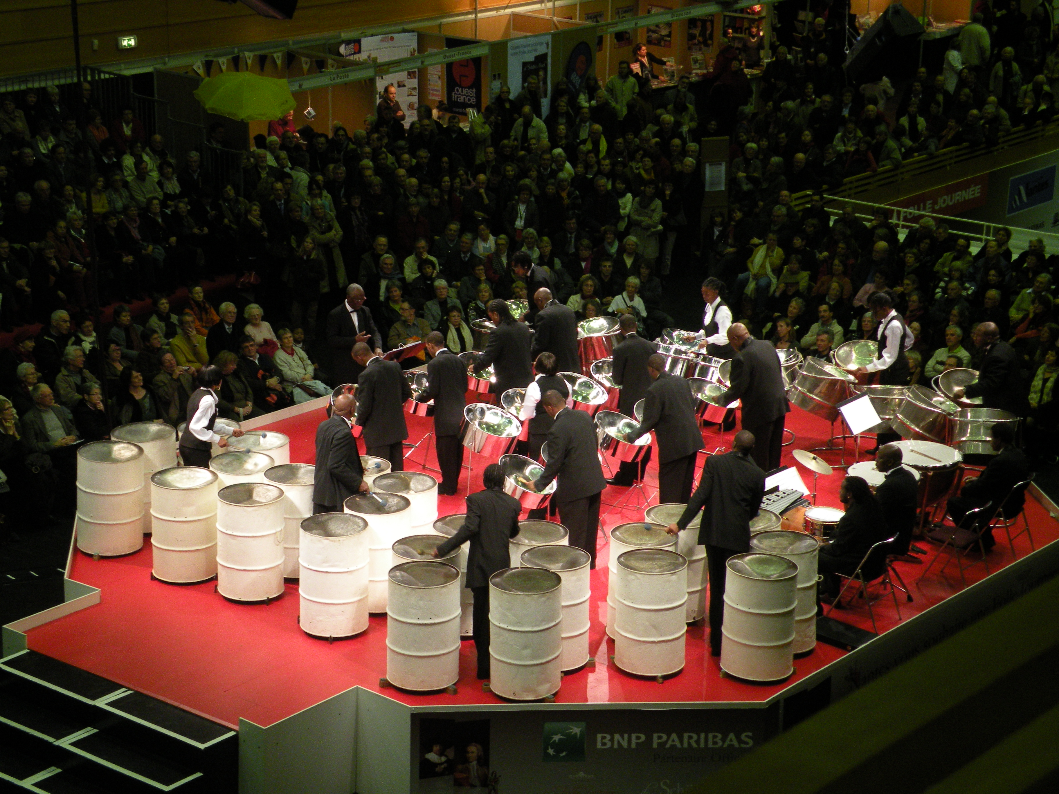 Renegades Steelband, on 28 january 2009, during La Folle Journée in Nantes.